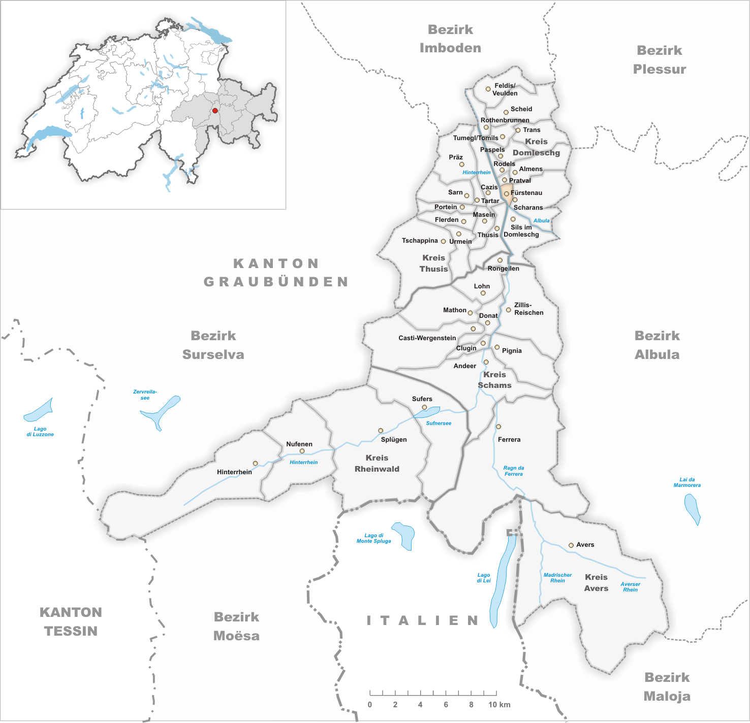 Municipality Fürstenau